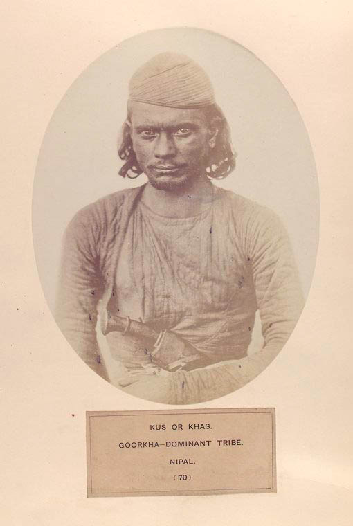 This image is from the book, The People of India, a series of photographic illustrations, with descriptive letterpress, of the races and tribes of Hindustan, originally prepared under the authority of the government of India, and reproduced. by J. Forbes Watson and John William Kaye between 1868 - 1875.